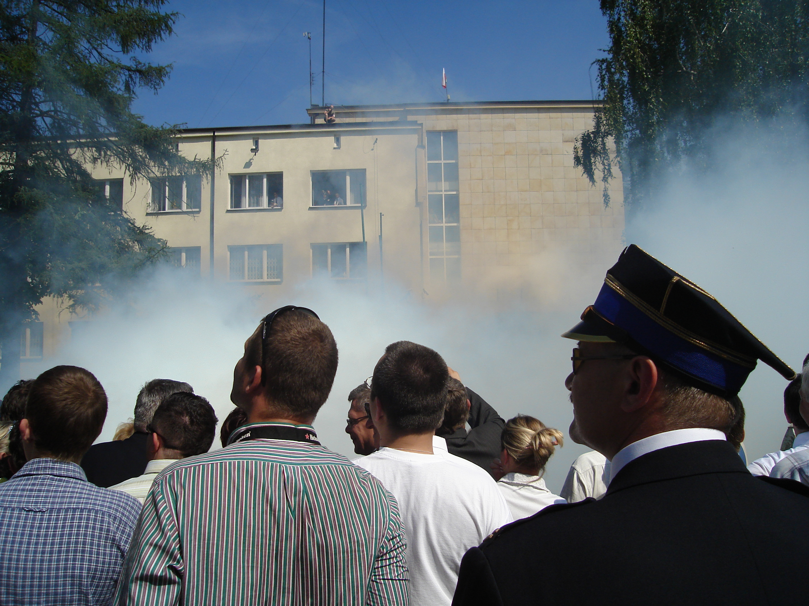 Staging of Radom events 1976